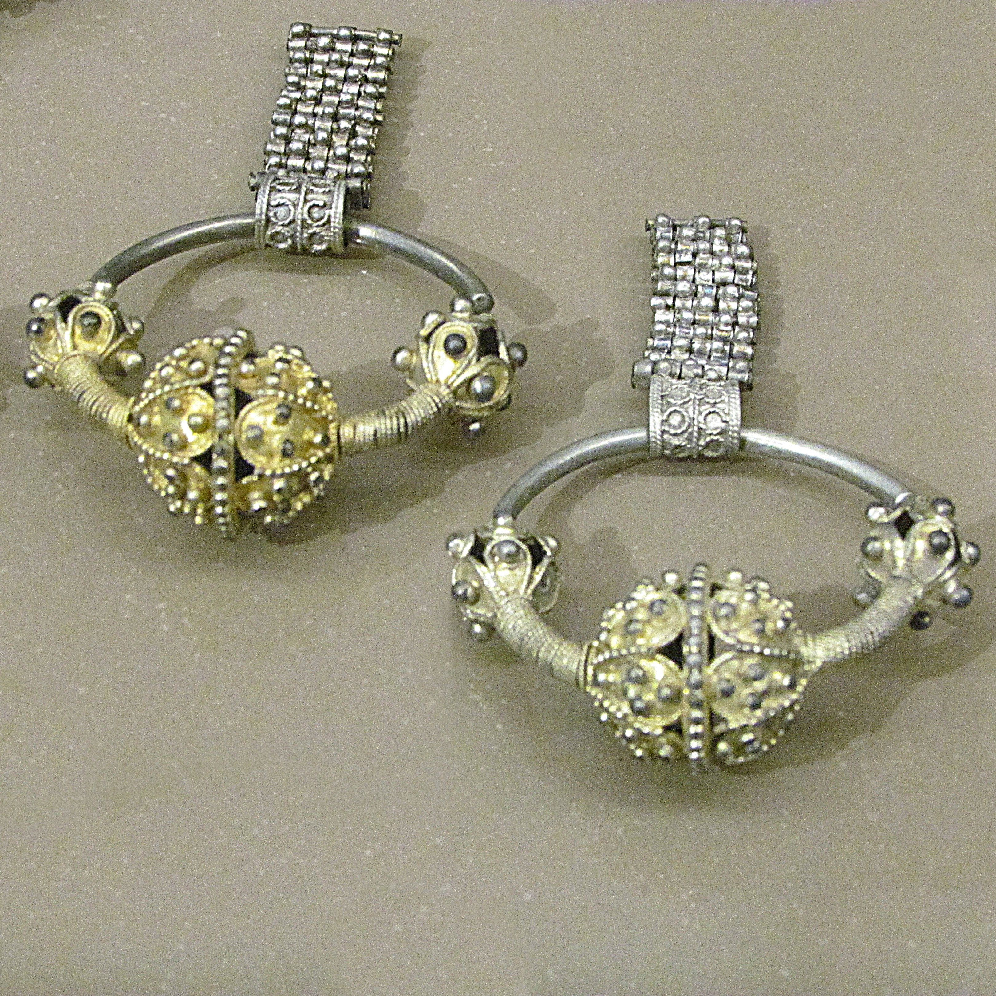 Earrings 14th c, Korbovo, Kladovo, National Museum of Serbia